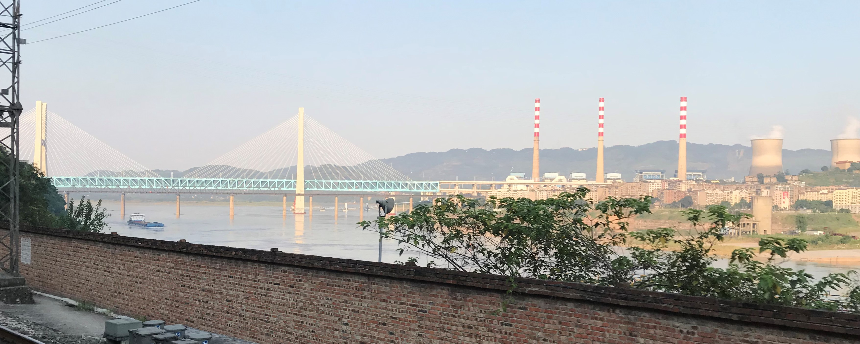 201908 New Baishatuo Yangtze River Bridge from Shichang